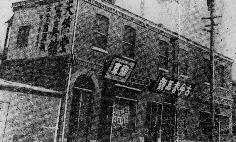 Gogeumseohwagwan(고금서화관, the gallery of old and modern), The first art gallery of Korea found at 1913